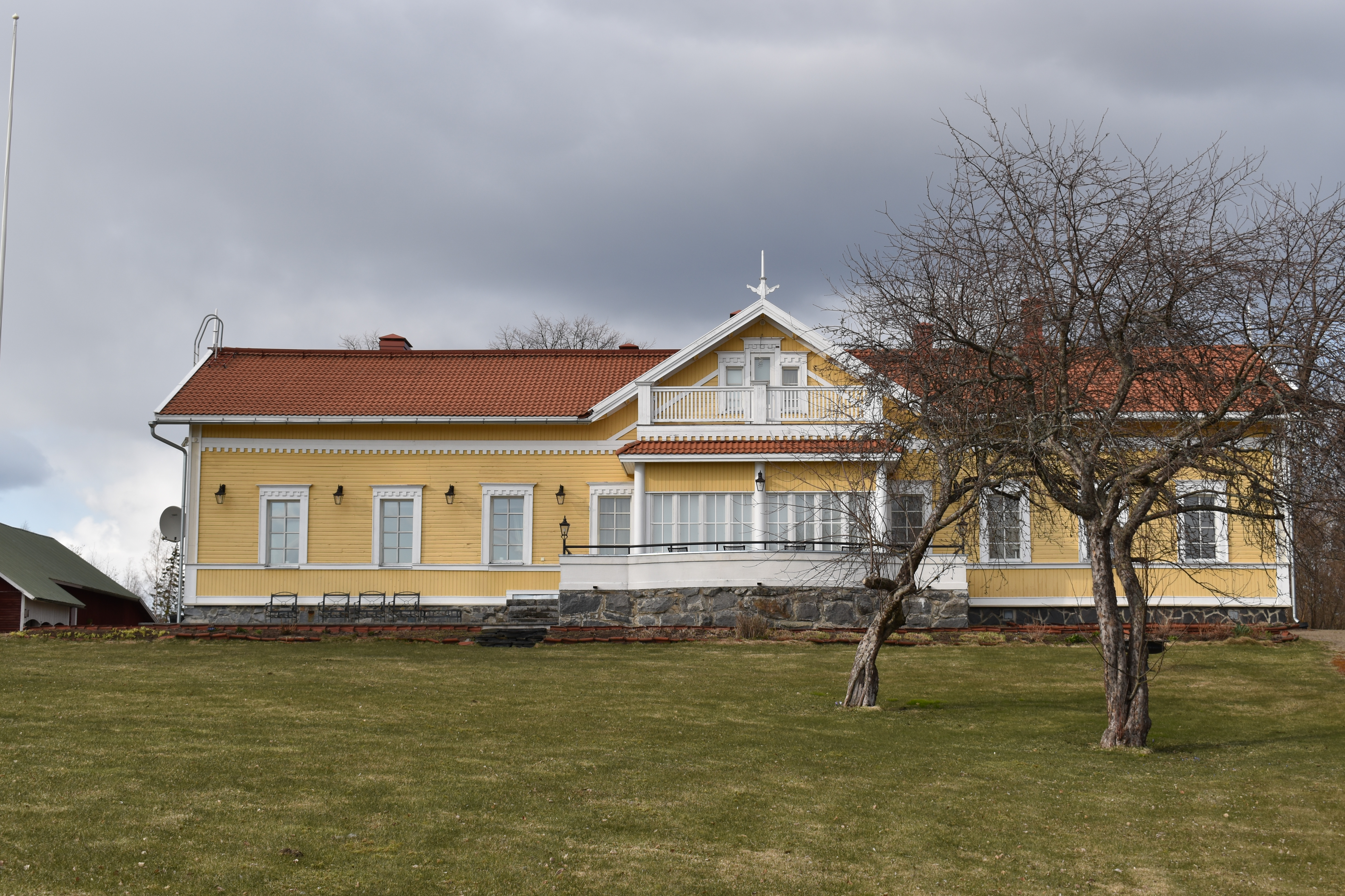 Tynkkylänjoki manor is from the 16th century. First record of the manor is from 1561. Current main building dates back to 1740s.